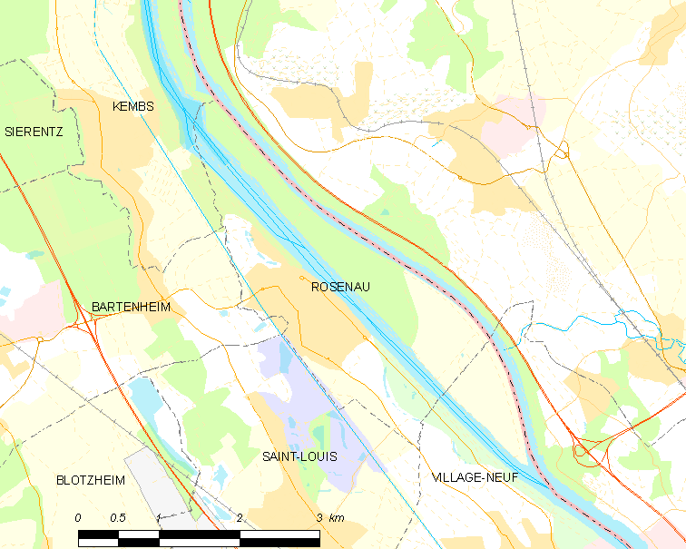 Map of French municipality